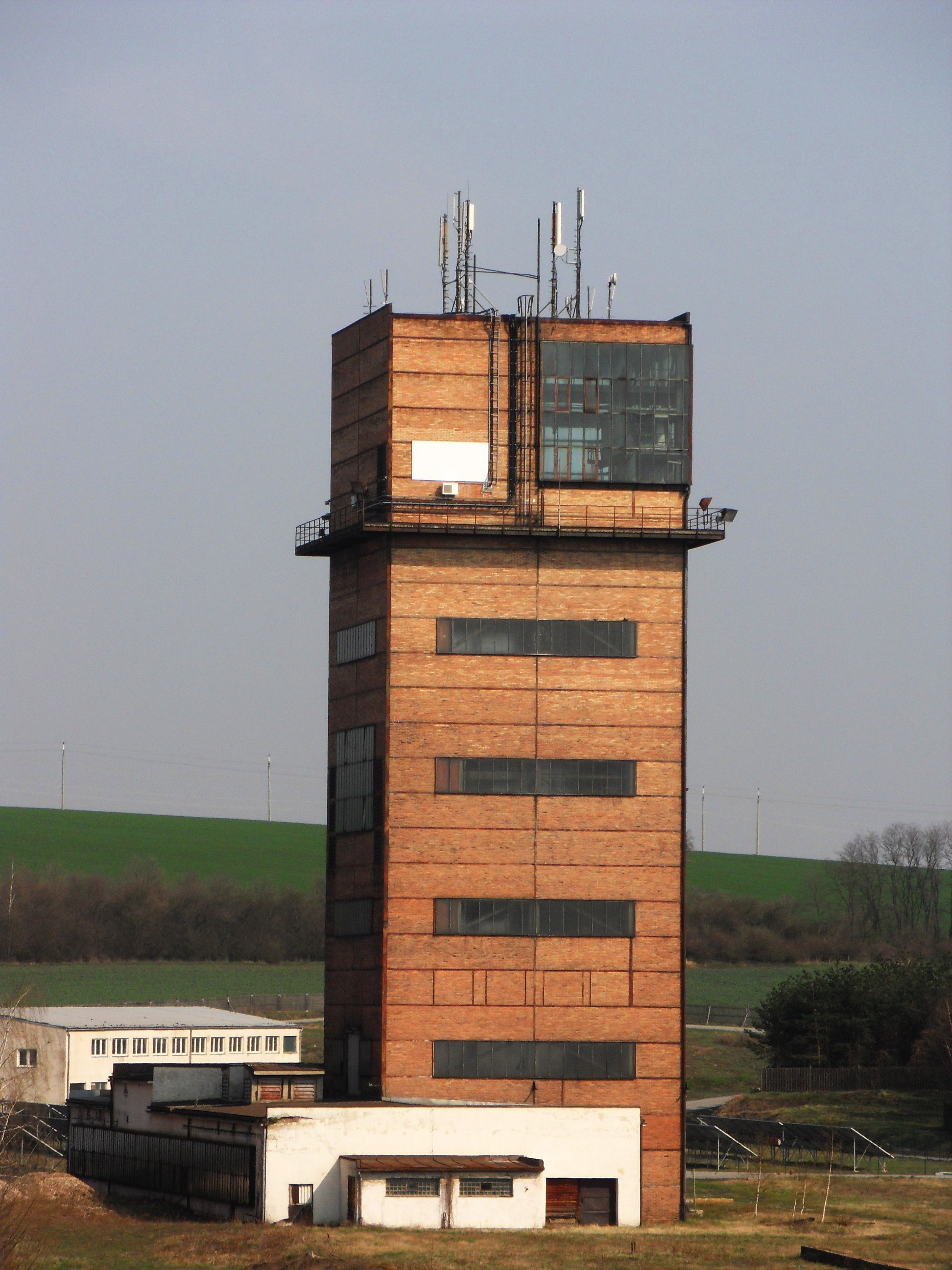 Former Jindřich II coal mine, Zbýšov, Brno-venkov District, Czech Republic